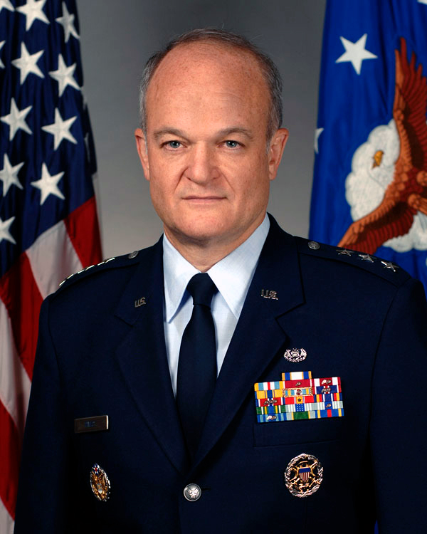 Lt. Gen. Jack L. Rives, Judge Advocate General (TJAG), United States Air Force.